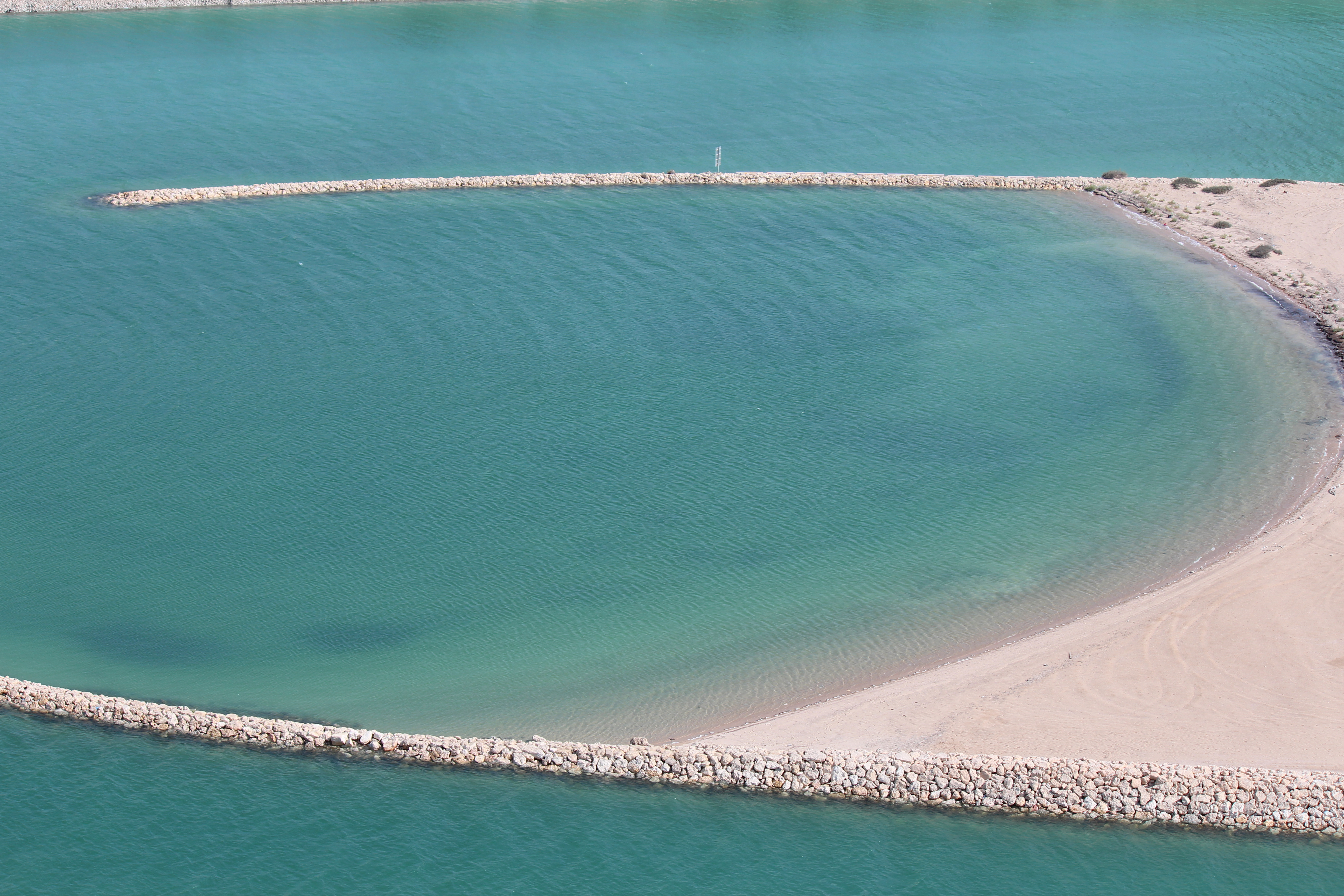 The Pearl, a man-made island off the coast of Doha.